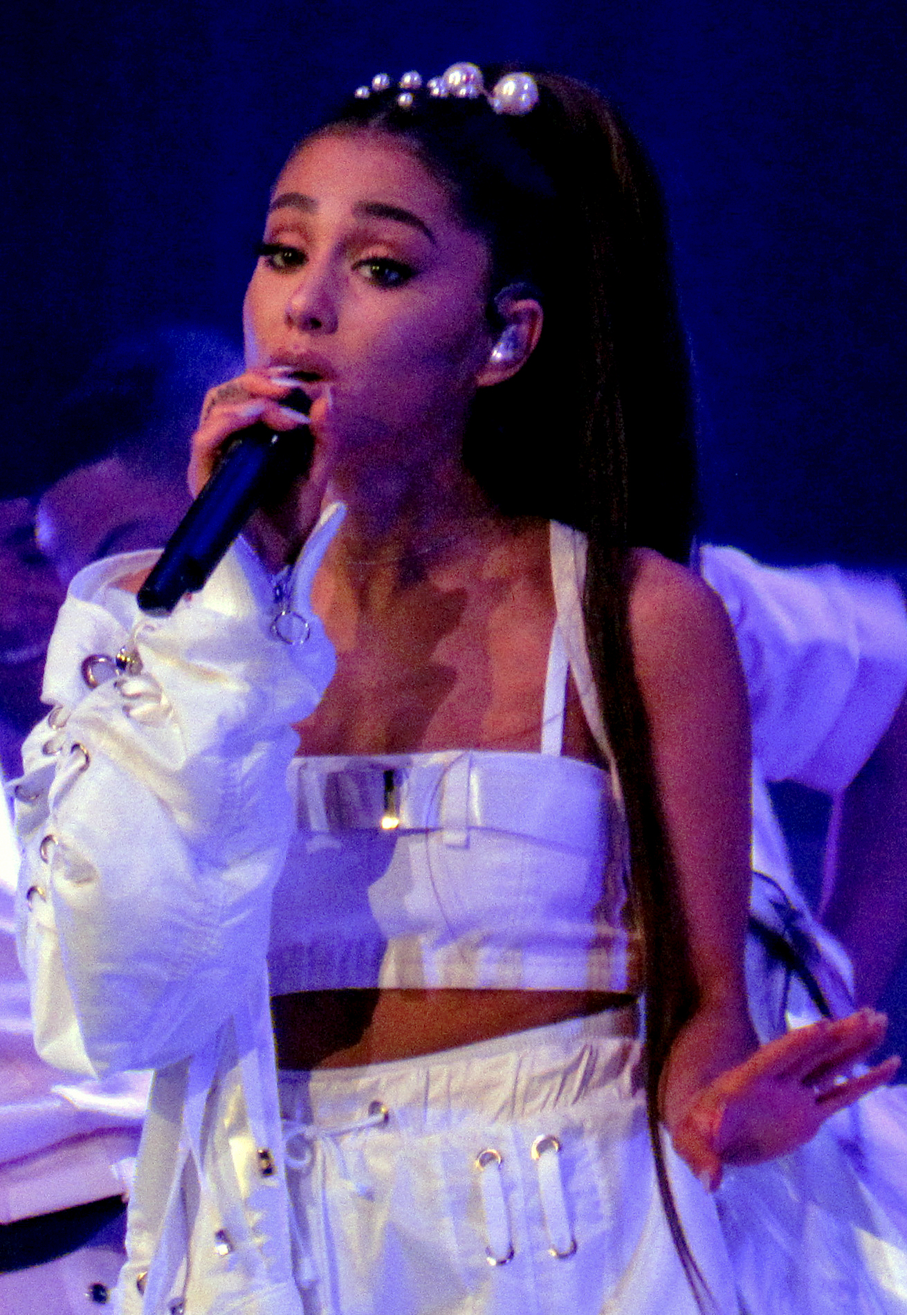 Ariana Grande performing during Dangerous Woman Tour on February 19, 2017.